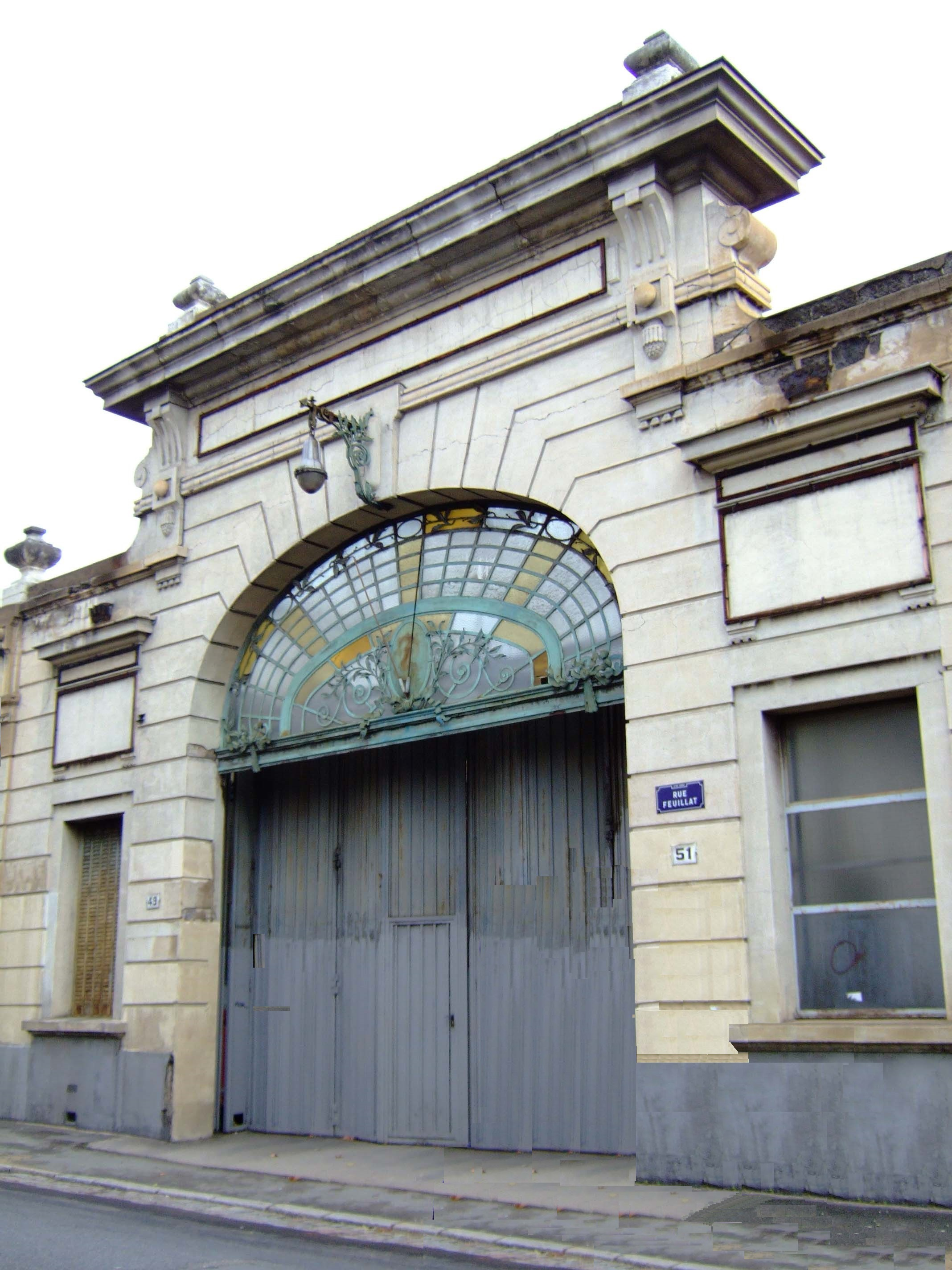 Portal of the twentieth century